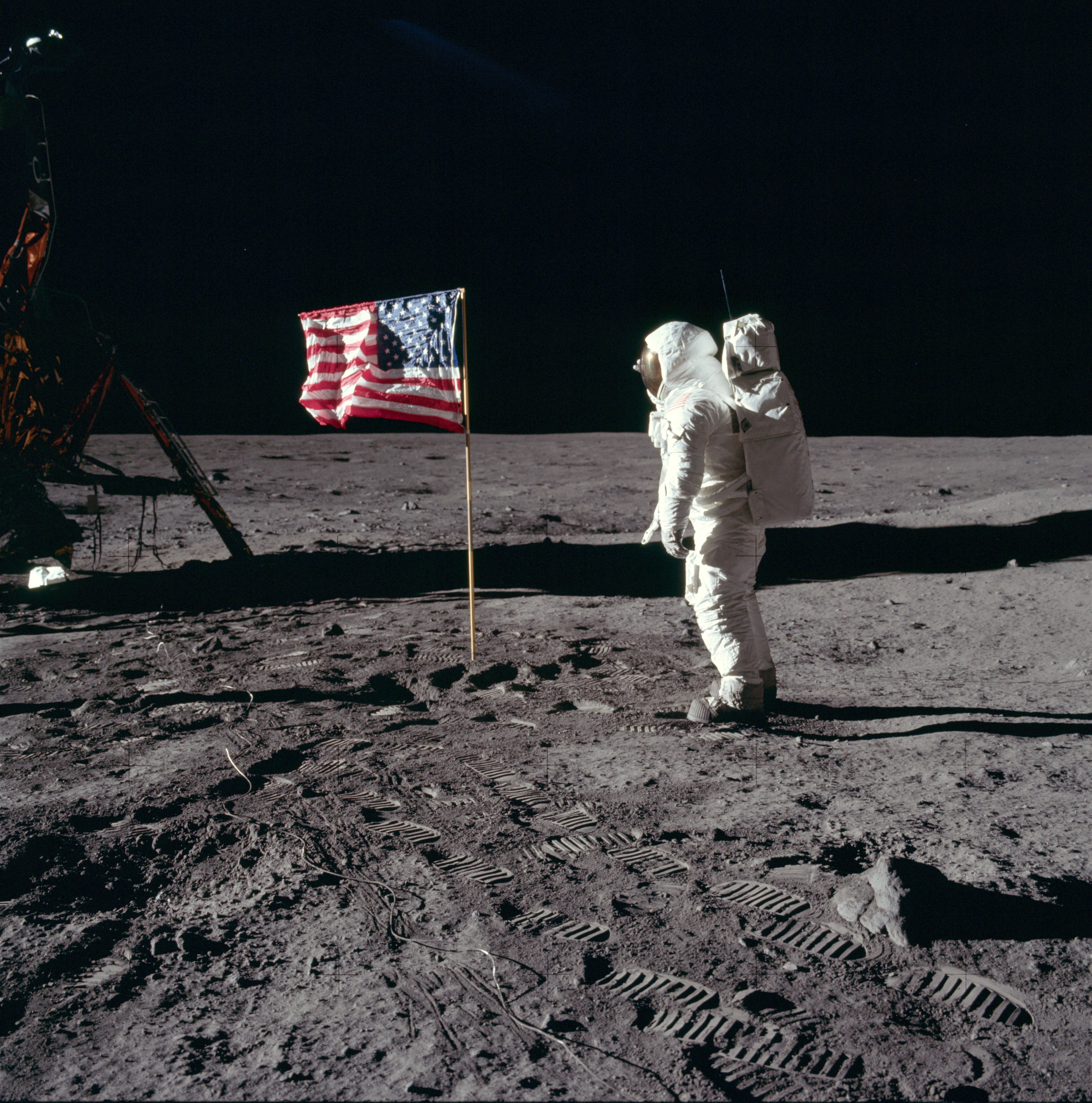 Buzz Aldrin with U.S. flag on the Moon. (mission time: 110:10:33) Buzz salutes the U.S. Flag. His fingertips are visible on the far side of his faceplate. Note the well-defined footprints in the foreground. Buzz is facing up-Sun. There is a reflection of the Sun in his visor. At the bottom of Buzz's faceplate, note the white 'rim' which is slightly separated from his neckring. This 'rim' is the bottom of his gold visor, which he has pulled down. We can see the LEC straps hanging down inside of the ladder strut. In the foreground, we can see the foot-grabbing loops in the TV cable. The double crater under Neil's Lm window is beyond Buzz and the LM shadow